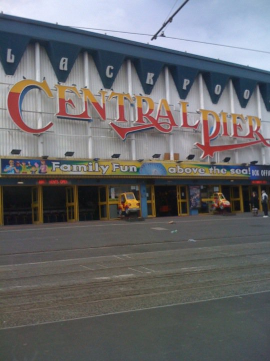 The facade of Central Pier, in Blackpool, Lancashire, England.